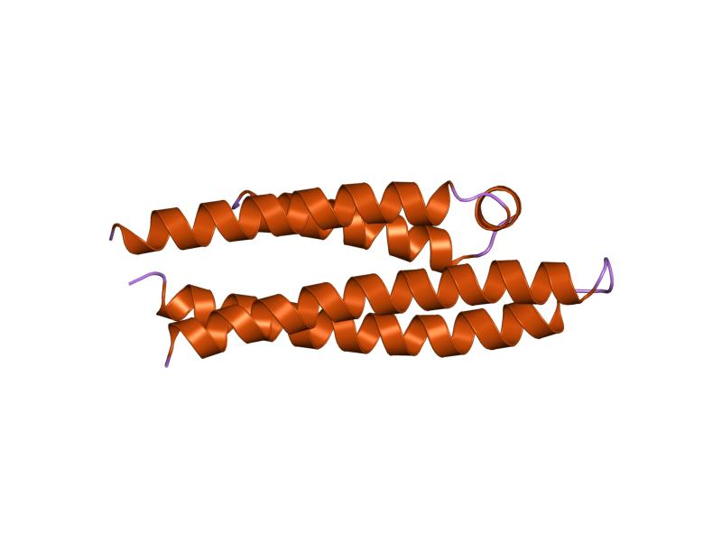 Cartoon representation of the molecular structure of protein registered with 1nfn code.